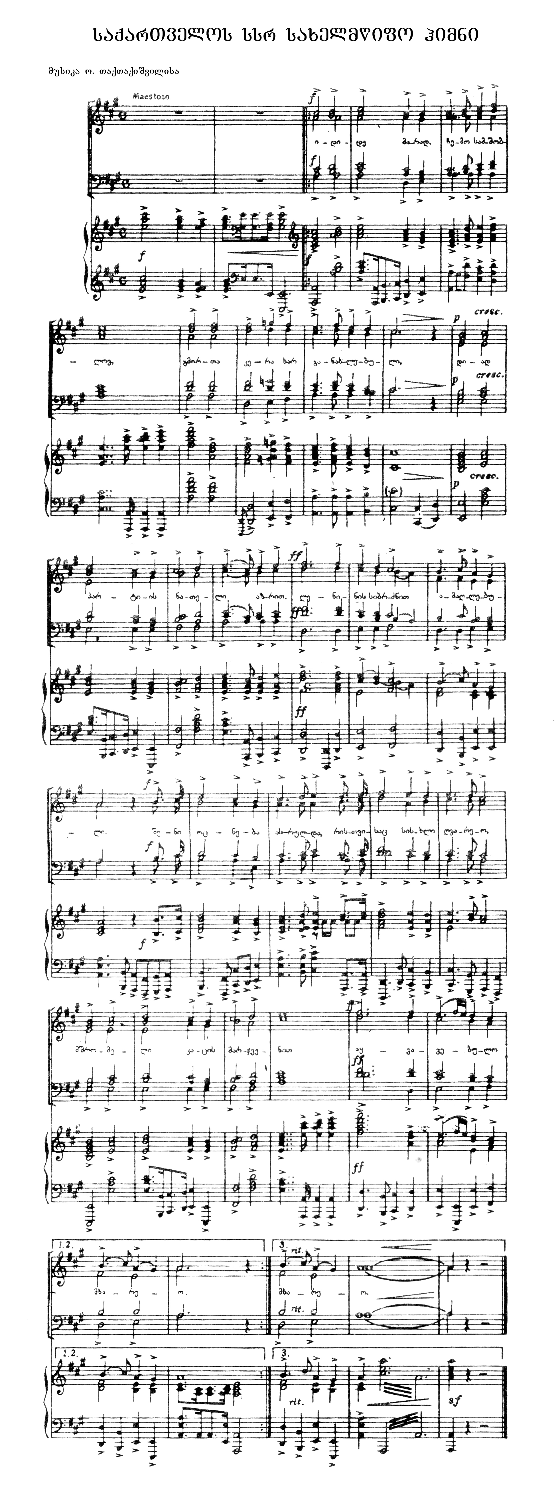 Sheet music to the Georgian SSR anthem, (Georgian version).